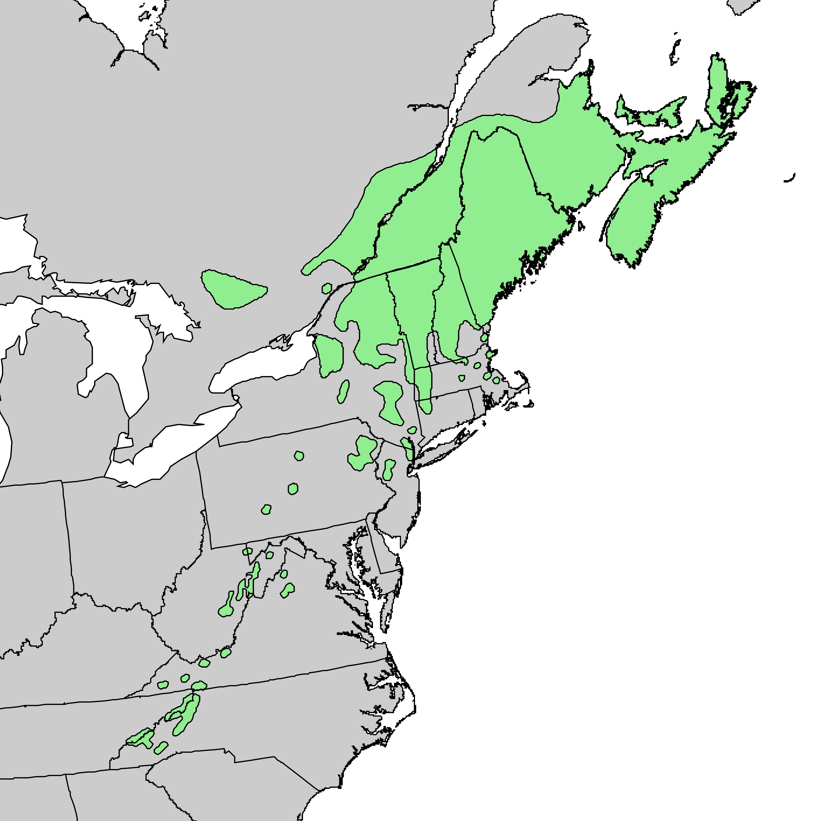 Natural distribution map for Picea rubens